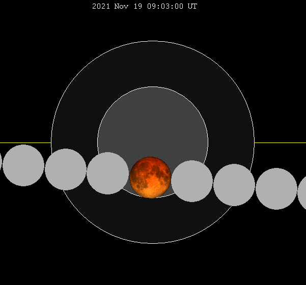 November 2021 lunar eclipse chart of moon's nearly-total lunar eclipse path through the earth's shadow. thumb